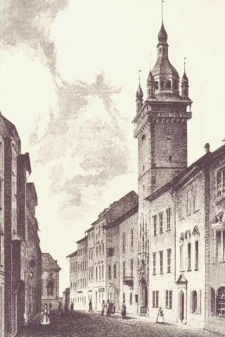 Brno in 1842.